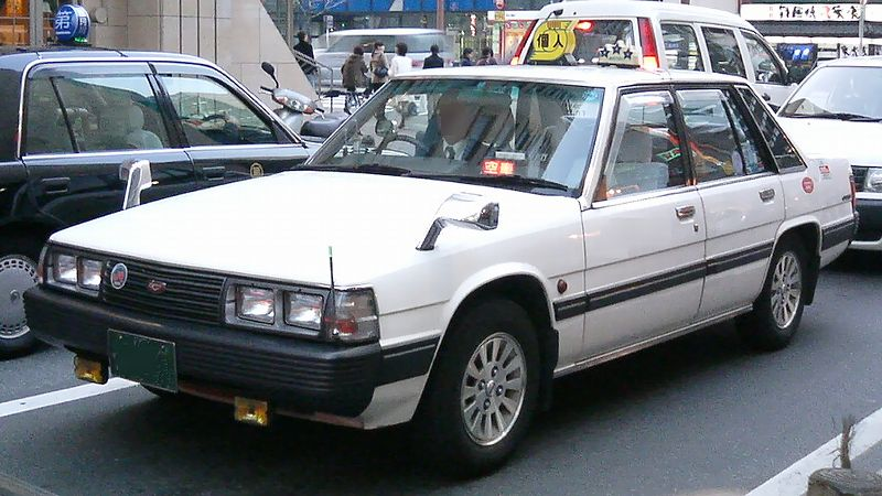 Mazda Custom Cab taxi(Japanese Version)